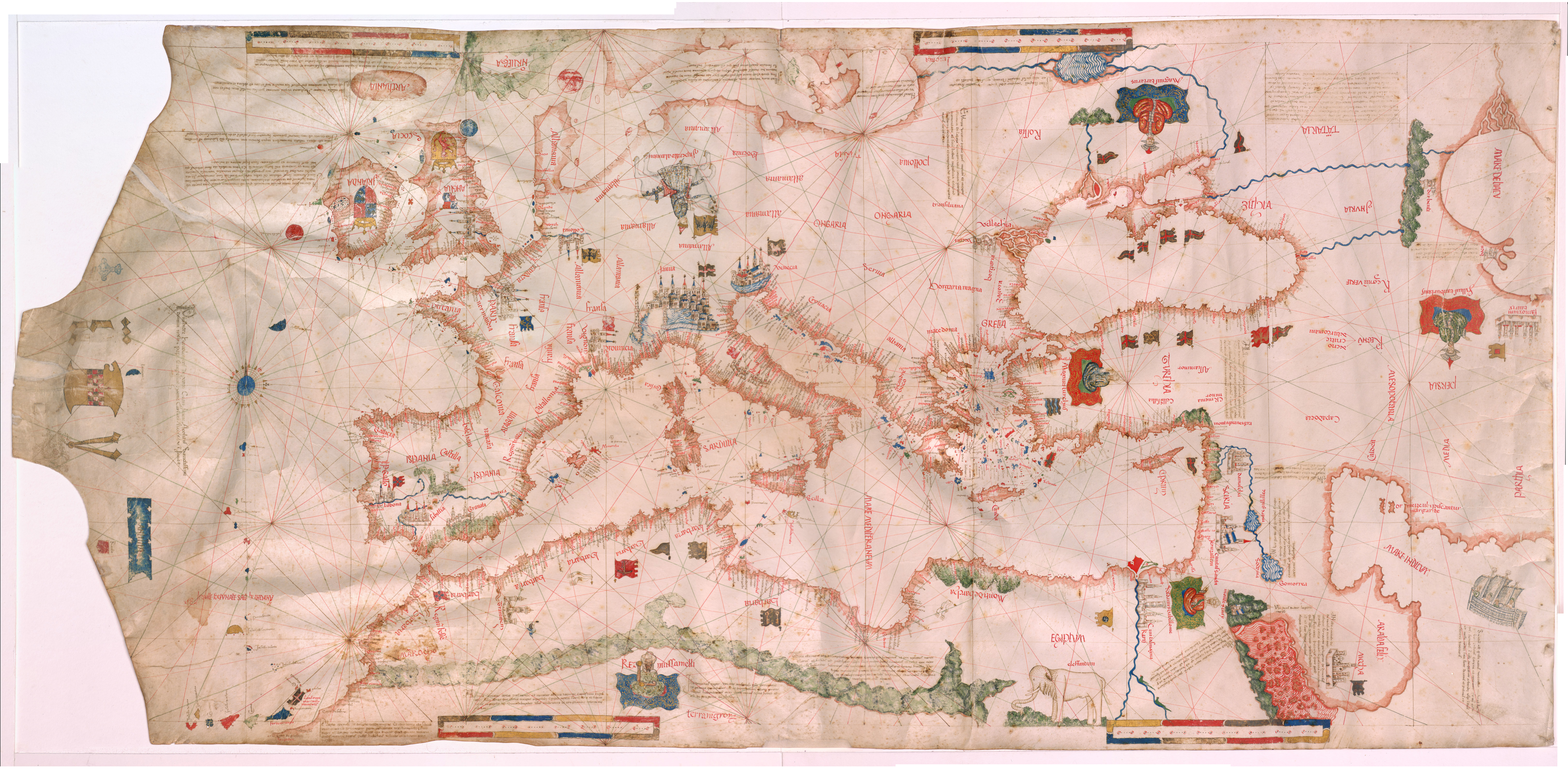 This nautical chart is the sole surviving work of Bartolomeo Pareto, a 15th-century priest and cartographer from Genoa.